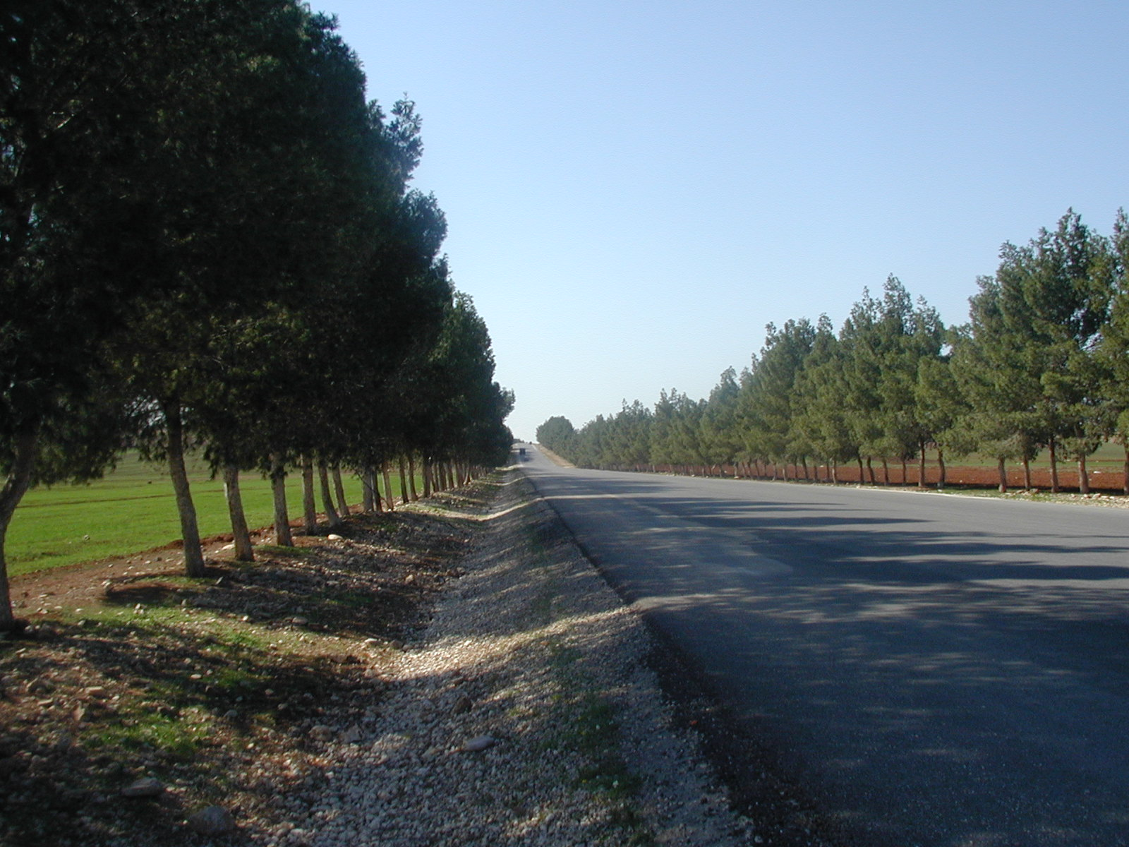 an image showing the road to Shajarah Town